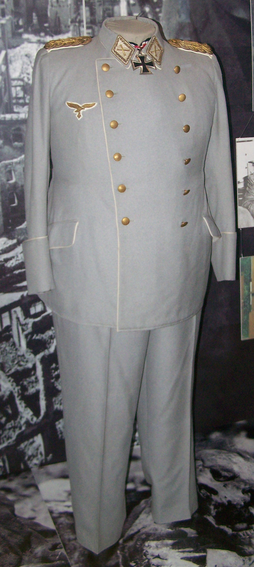 mundur Goringa baza RAF Gatow Berlin